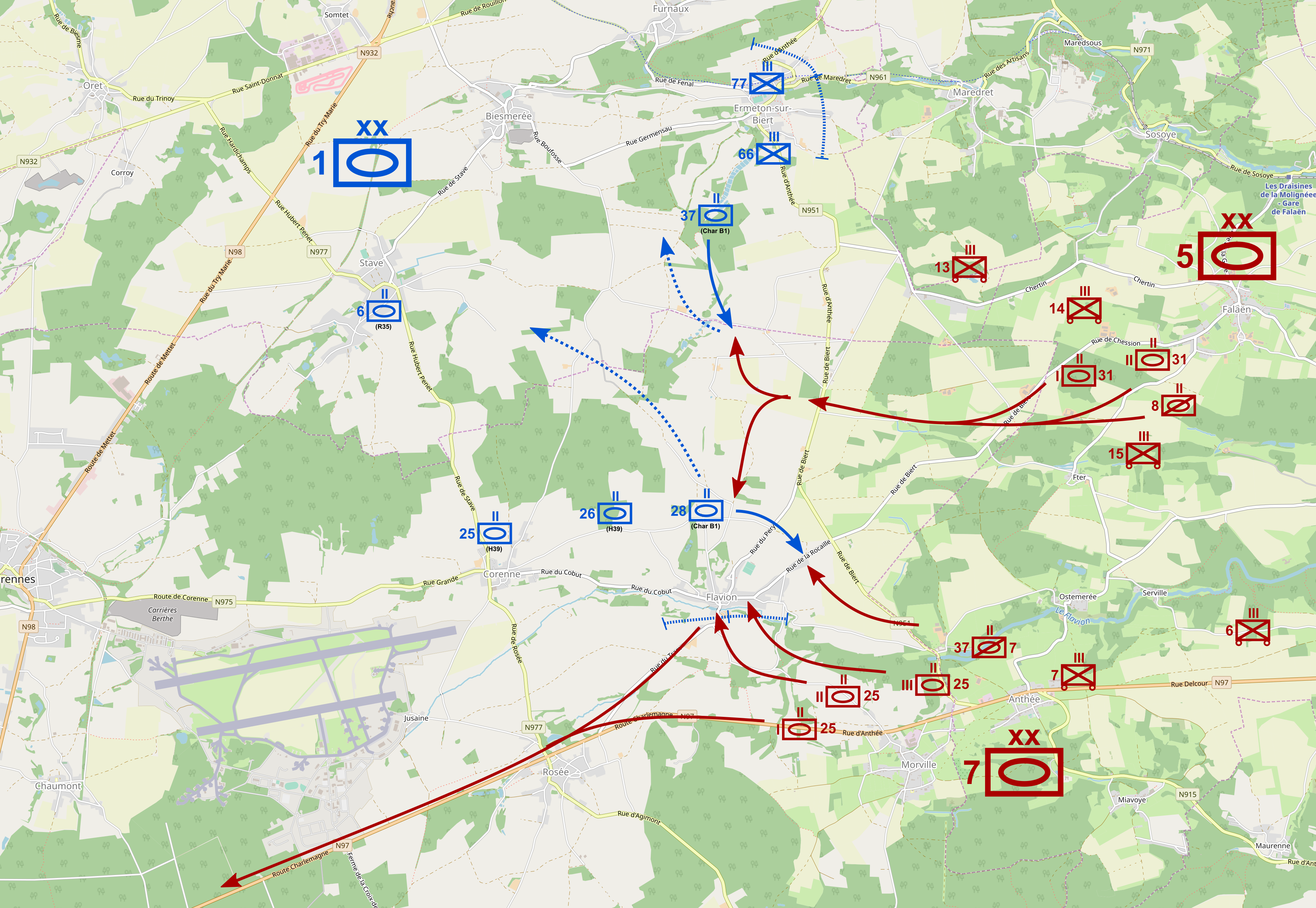 Map showing the tank battle at Flavion, May 15 1940. Influenced by maps in Pier Paolo Battistelli's "Panzer Divisions: The Blitzkrieg Years 1939-40". This map may be incomplete, and may contain errors. Don't rely solely on it for navigation.